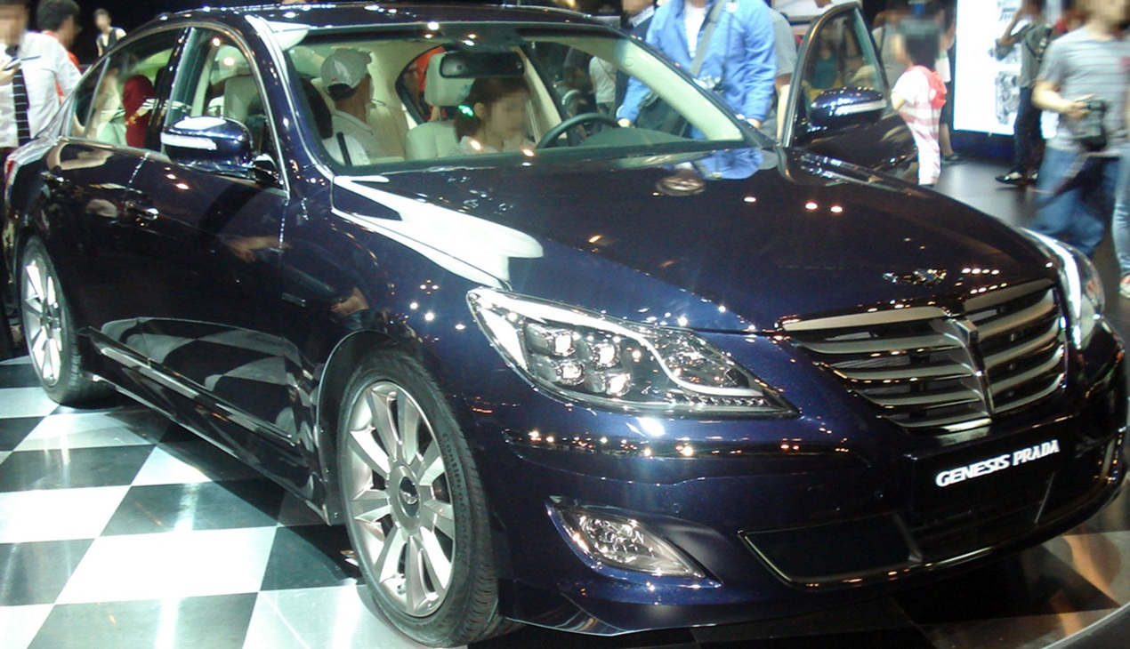 Hyundai Genesis Prada